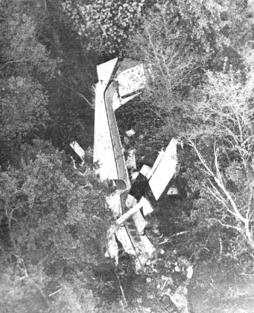 On May 30, 1979 a de Havilland Canada DHC-6 Twin Otter operating the flight crashed during a nonprecision approach to Rockland's Knox County Regional Airport.